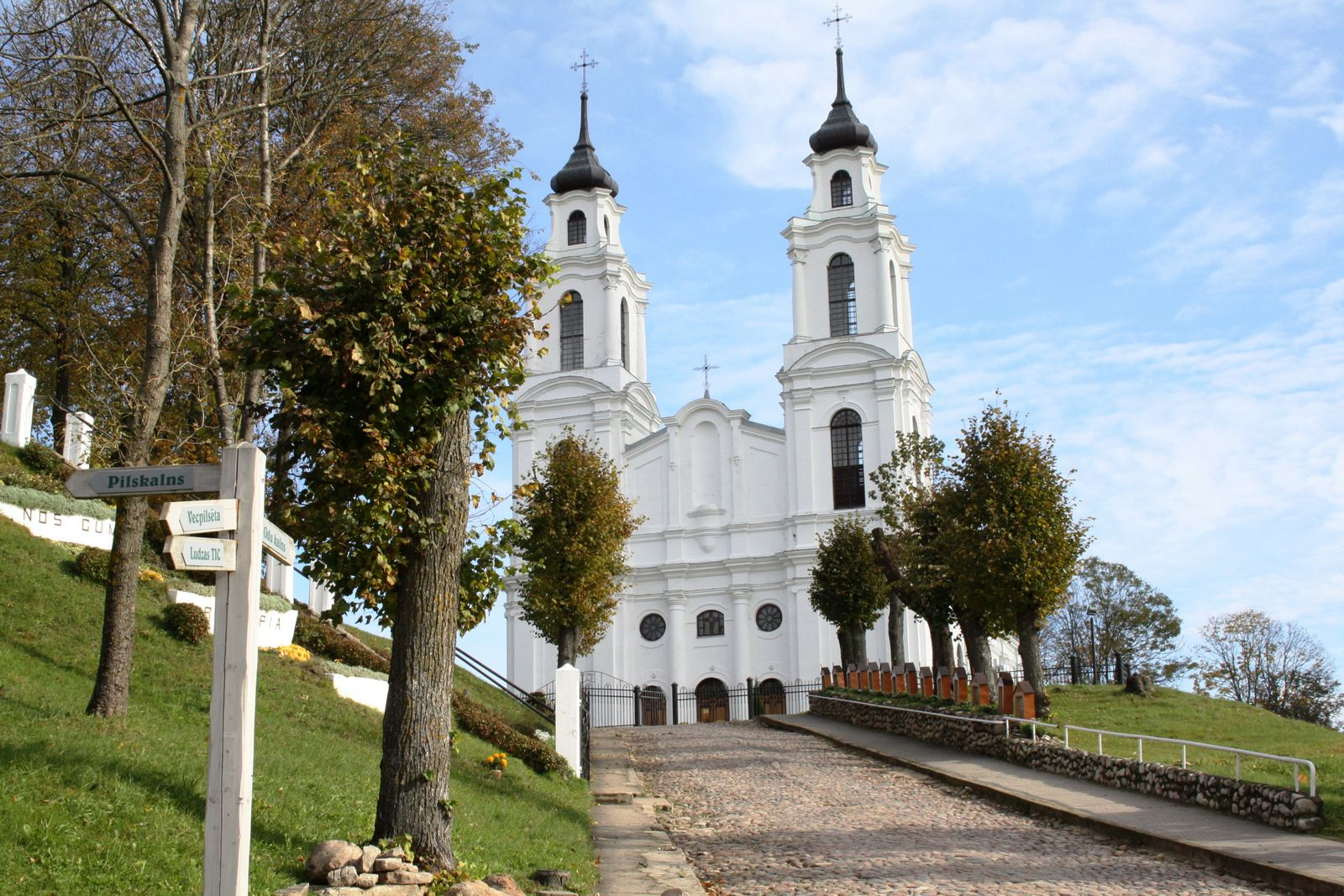 Church in Ludza